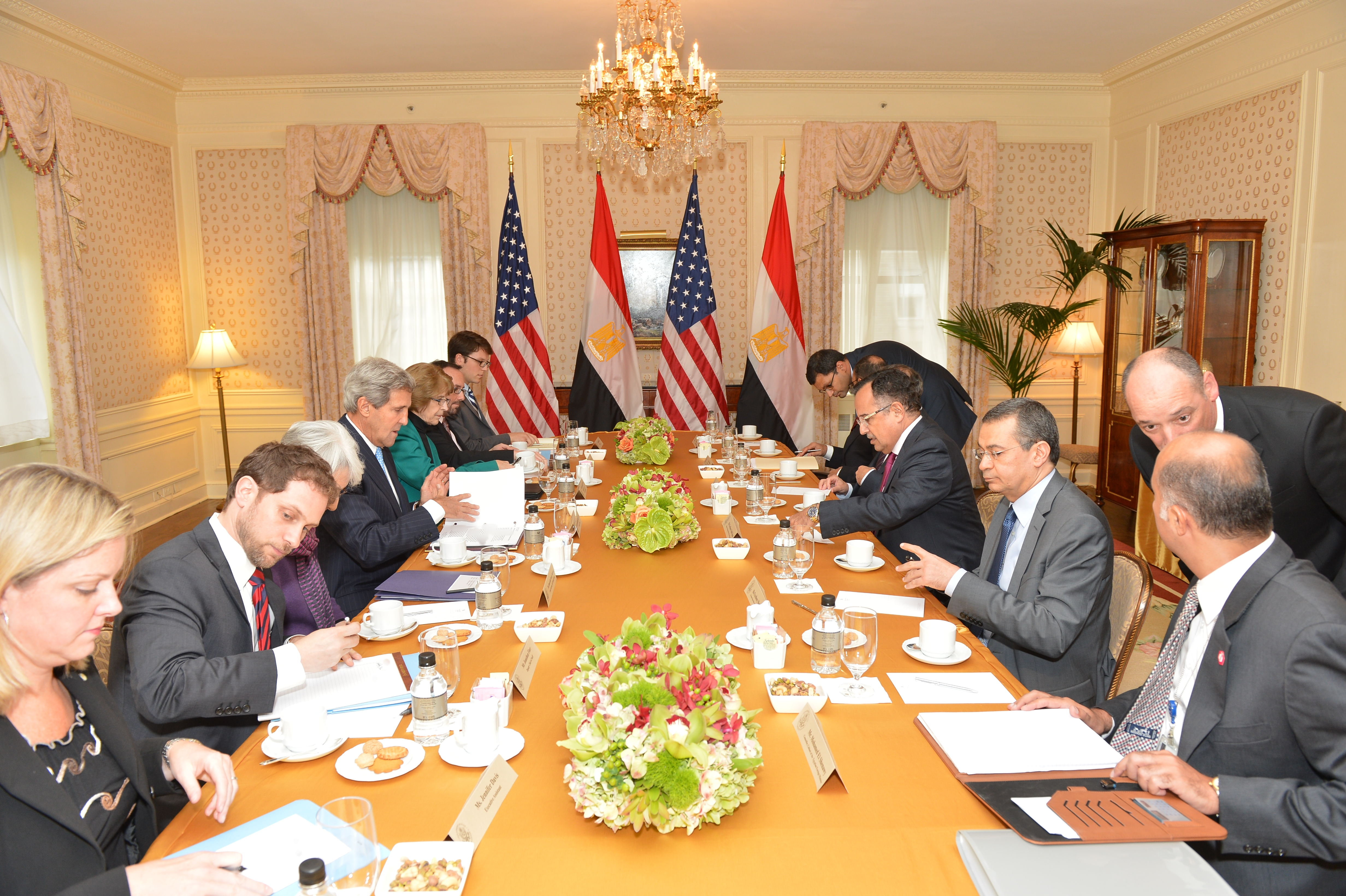 U.S. Secretary of State John Kerry holds a bilateral meeting with Egyptian Foreign Minister Nabil Fahmy in New York City on September 22, 2013. [State Department photo/ Public Domain]